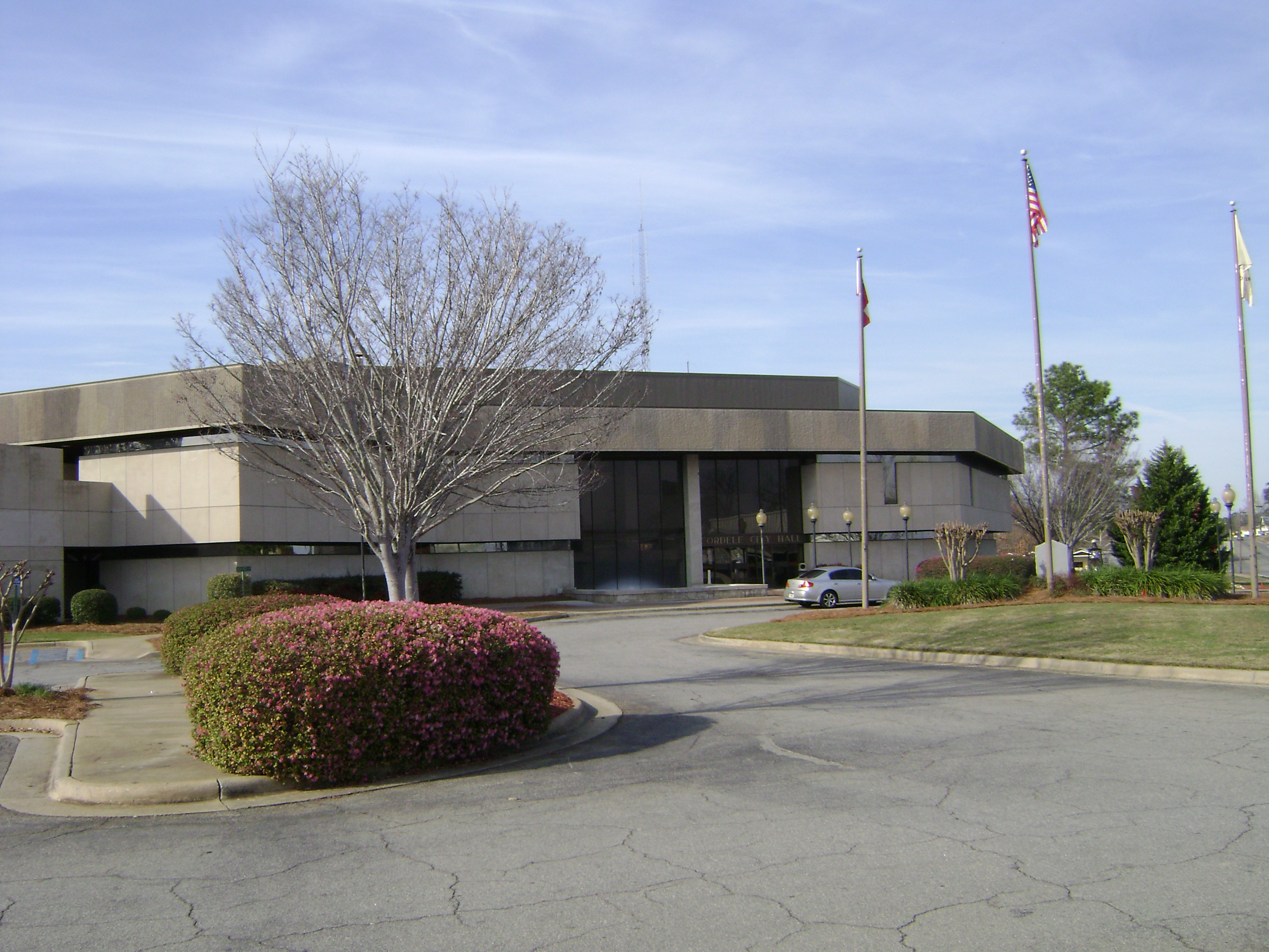 Cordele City Hall, 501 North 7th Street, Cordele, Crisp County, Georgia